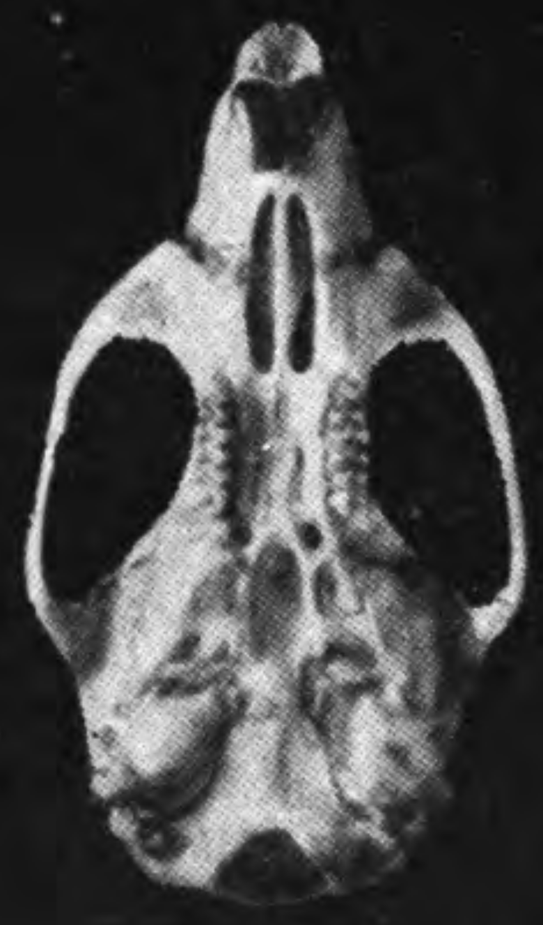 Skull of a specimen of Oryzomys peninsulae in ventral view.